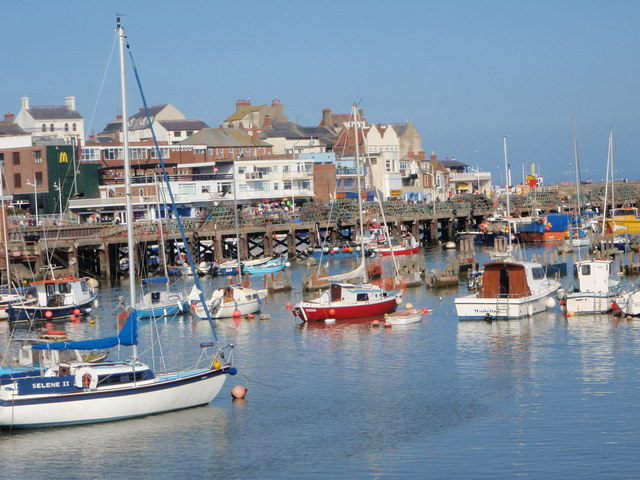 Bridlington Harbour, Bridlington, East Riding of Yorkshire, England.